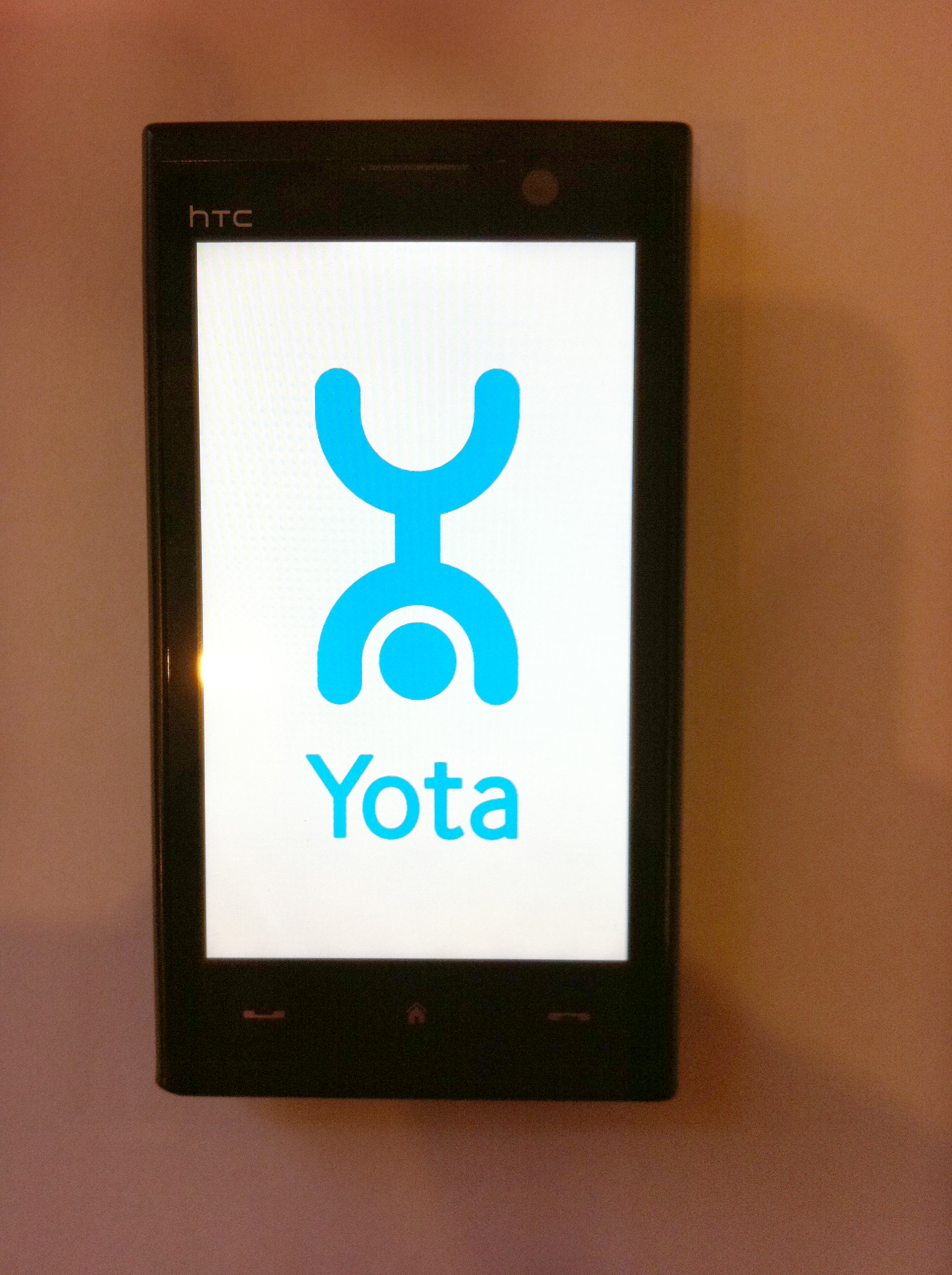 Picture of a HTC MAX 4G